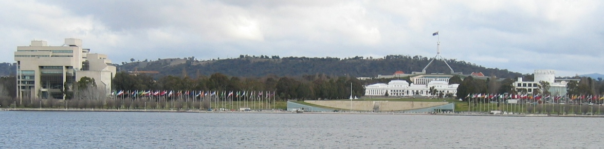 Commonwealth Place, Canberra lies between the High Court (left) and the National Library of Australia. Old Parliament House and the new Parliament House are seen behind Commonwealth Place, and the cylindrical National Science and Technology Centre, Canberra is located to the right of the image. Flags of all nations with diplomatic missions in Canberra are located along Commonwealth Place. Photo taken from the northern shore of Lake Burley Griffin on 21 August 2005 by User:Adz.